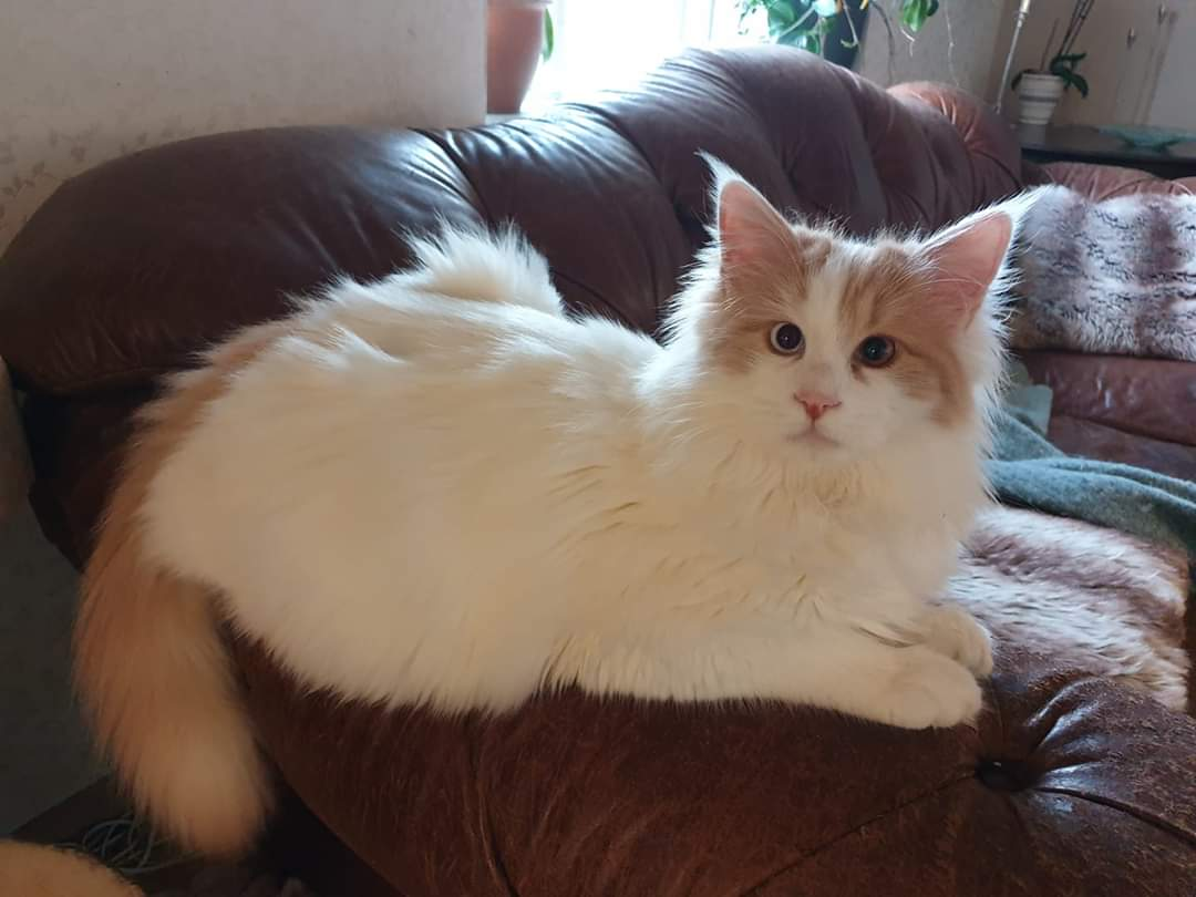 Thor, the Turkish Van